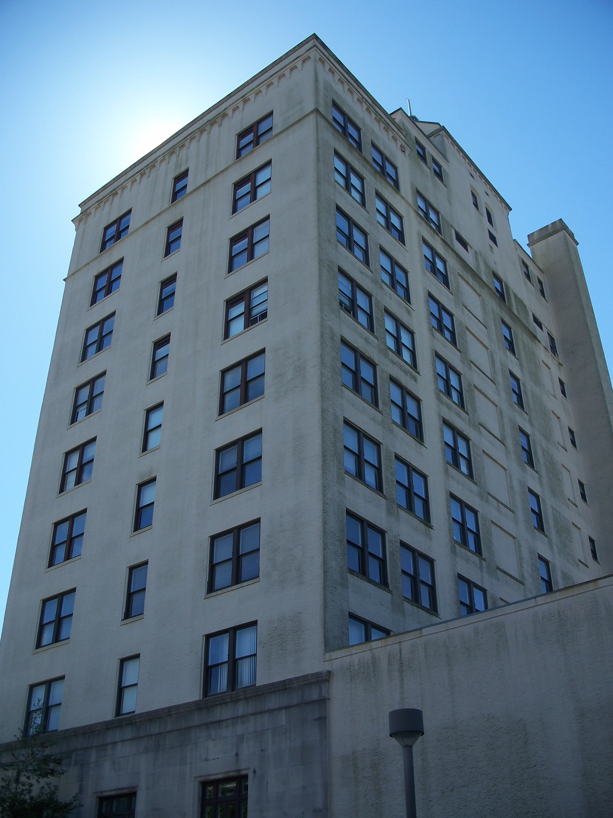 Seagle Building in Gainesville, Florida (formerly Hotel Kelley)